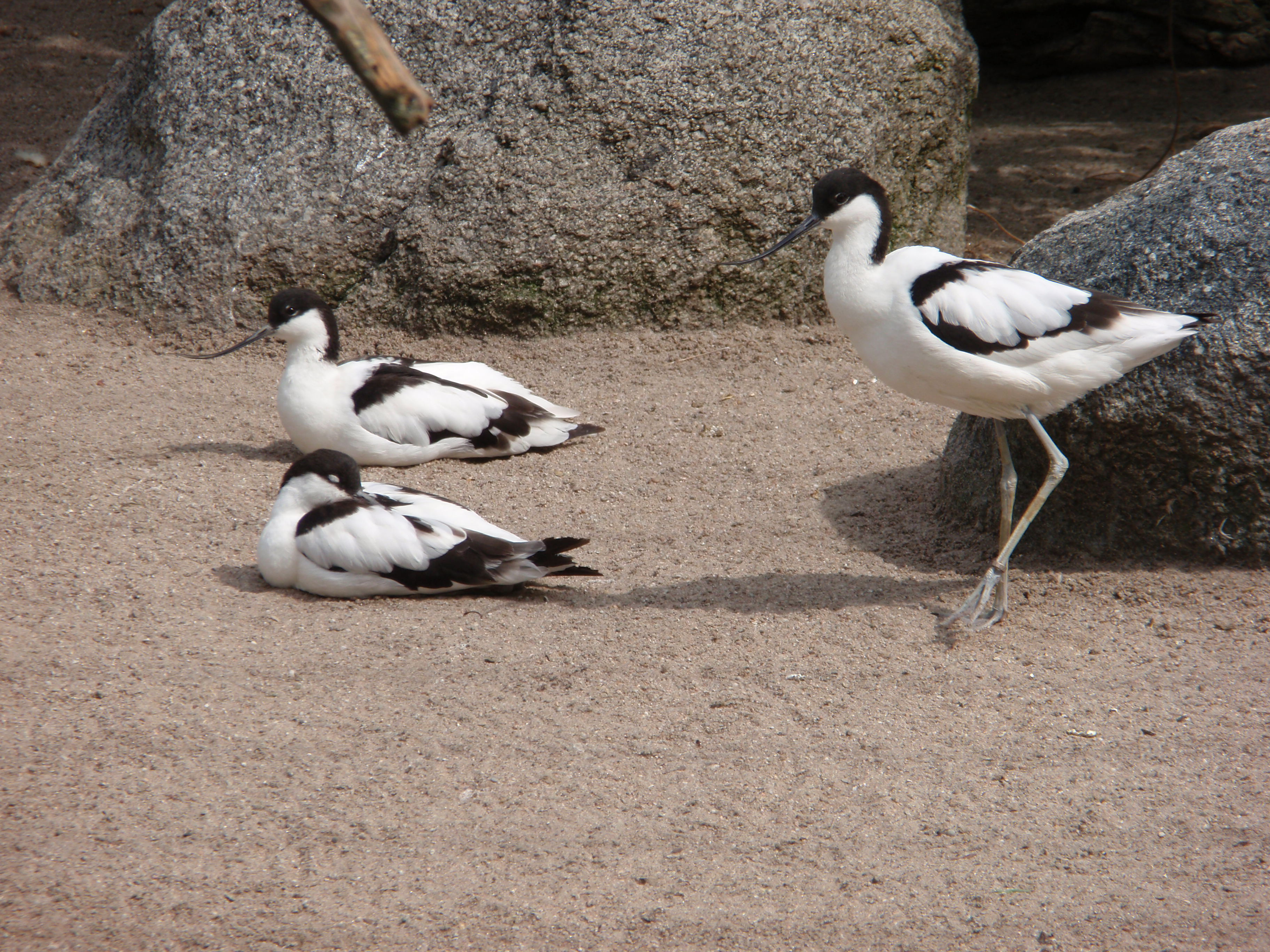 Pied Avocet in the Luisenpark Mannheim (Germany)